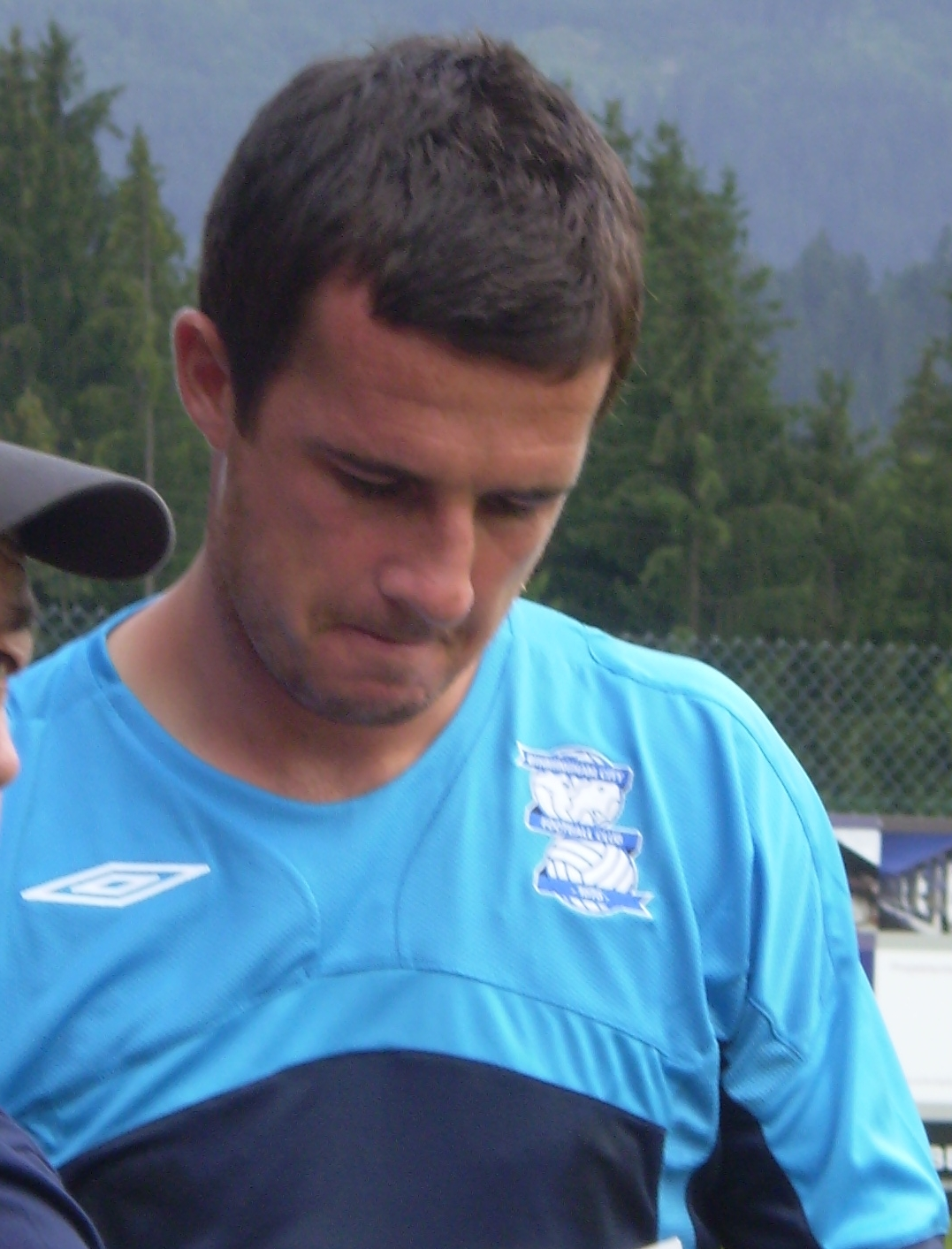 Barry Ferguson of Birmingham City F.C. signs autographs before the pre-season friendly against FC Augsburg in Westendorf, Austria